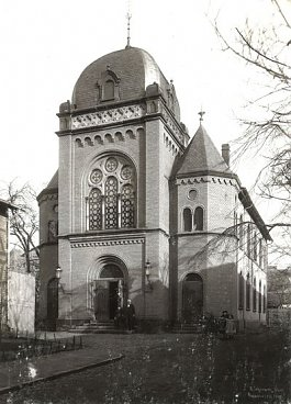 Nordhausen (Thuringia - Germany) synagogue